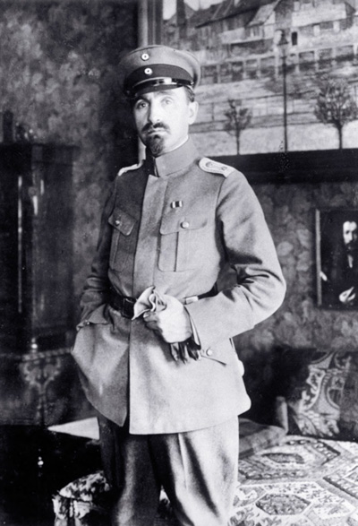 Hermann Struck (1876-1944) was a German Jewish artist known for his etchings. He volunteered in the German Army and worked as a translator in Halbmondlager Wünsdorf